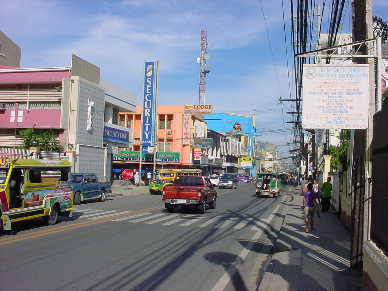 Don Gregorio T. Lluch Avenue (Formerly Quezon Avenue) in the city of Iligan, Mindanao